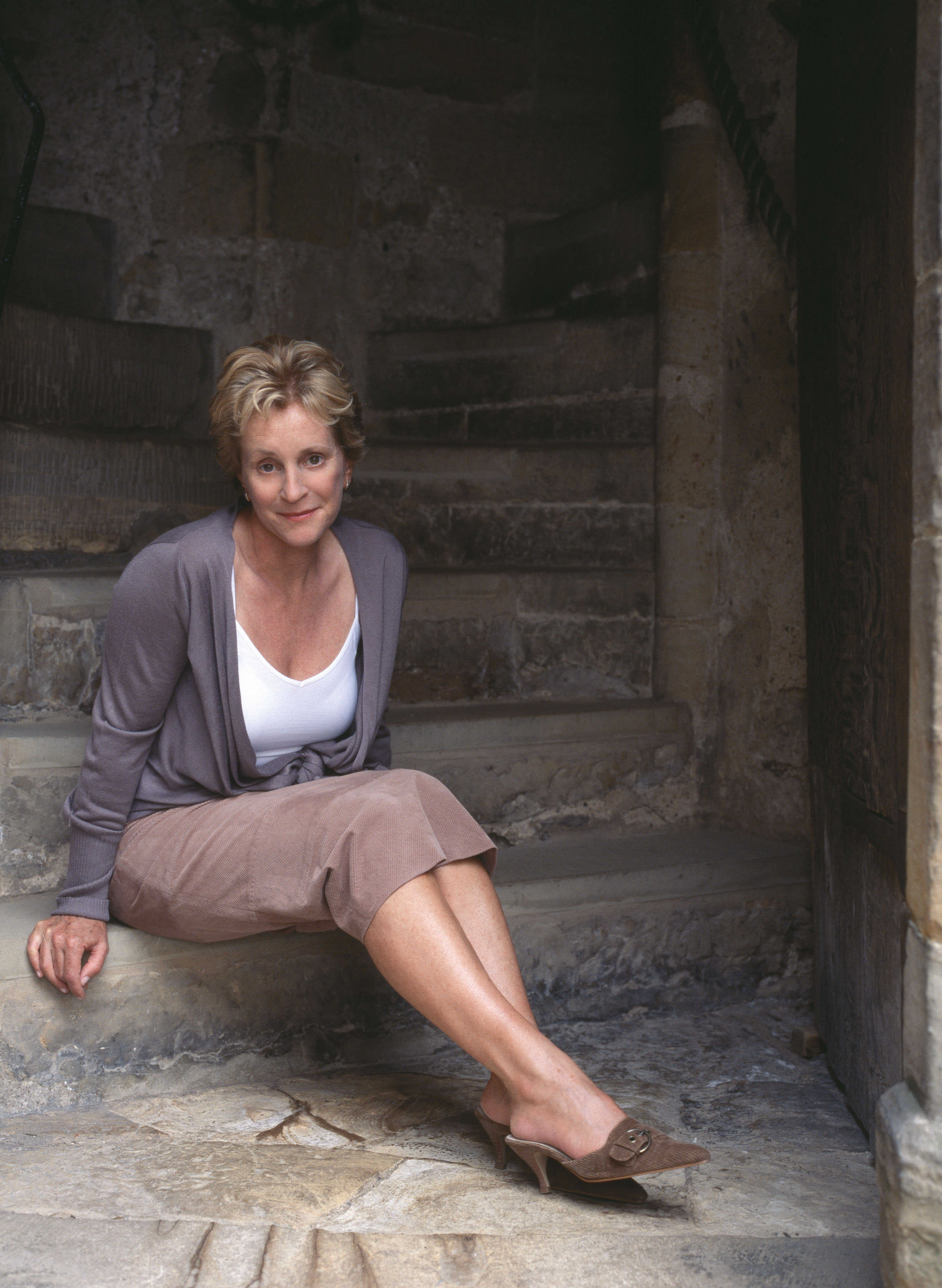 English author Philippa Gregory.